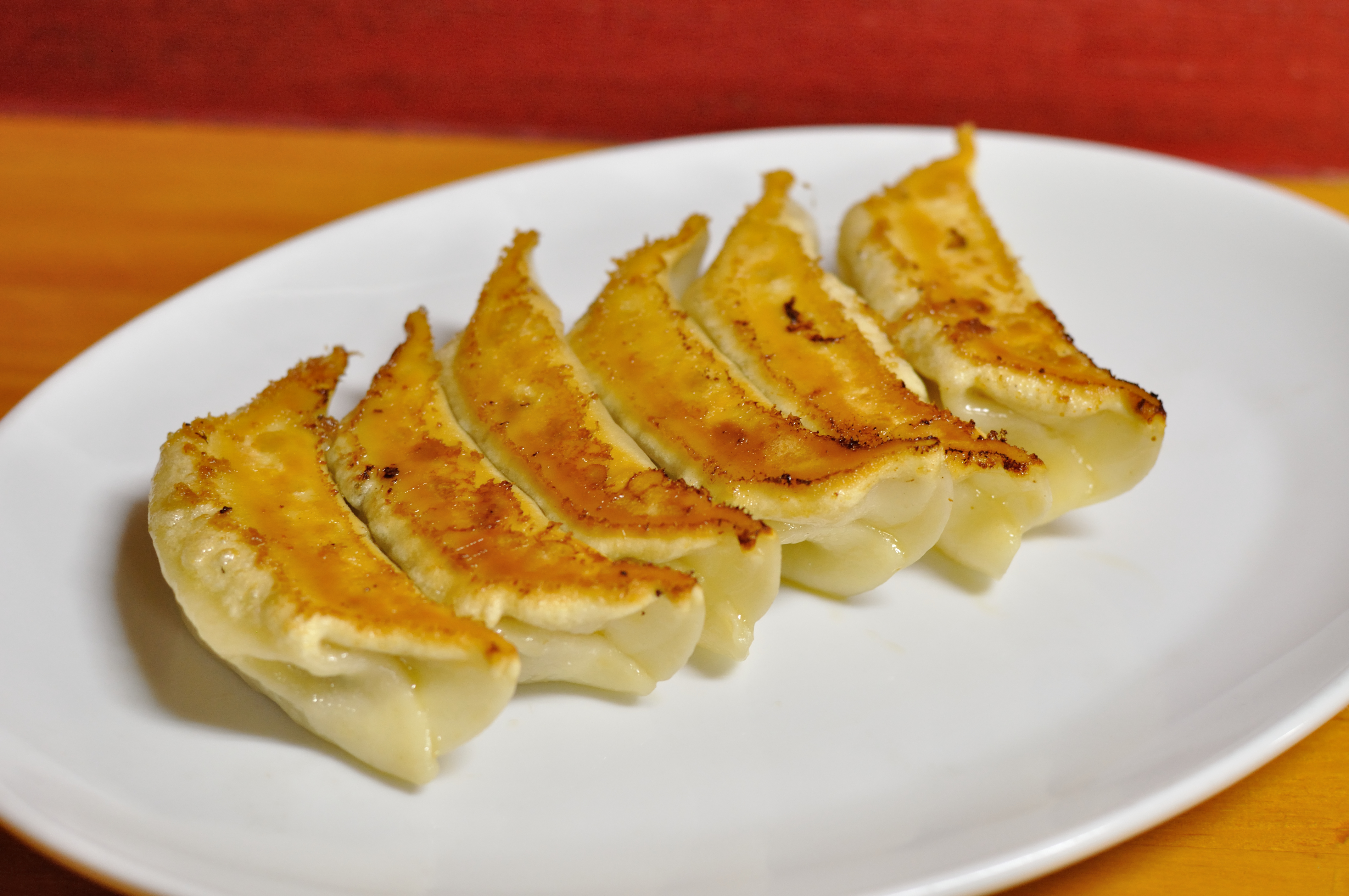 Yaki-Gyōza in Utsunomiya